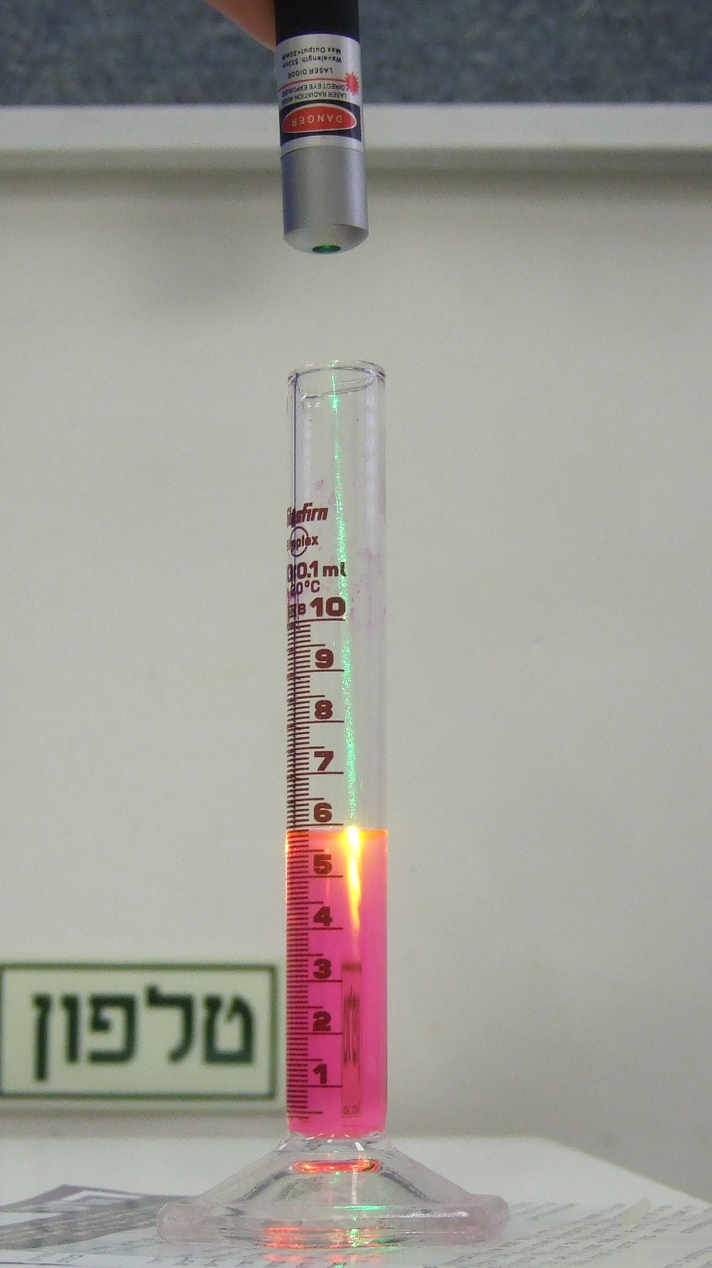 An example of Beer–Lambert law, a green laser lighting in a solution of Rhodamine 6G, the beam becomes weaker as it progresses inward